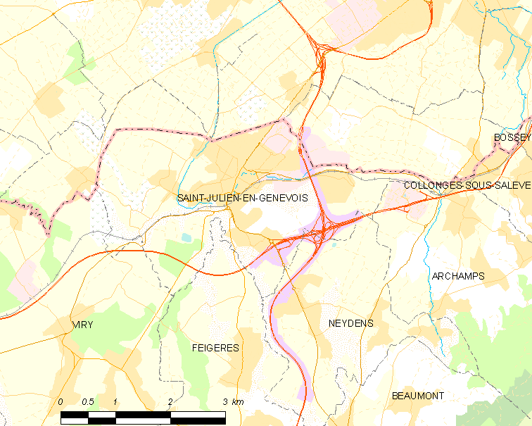 Map of French municipality Saint-Julien-en-Genevois